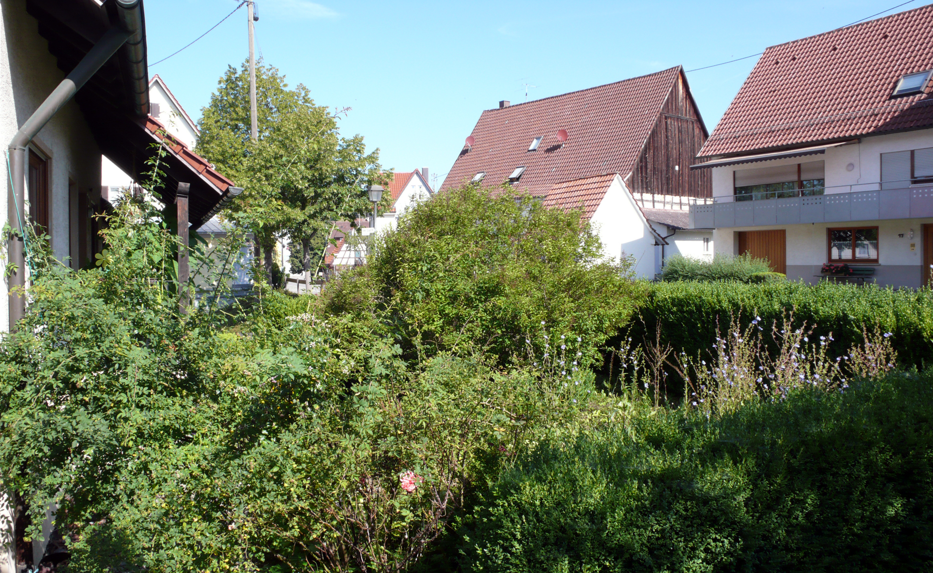 Houses in Engstlatt, a Balingen quarter